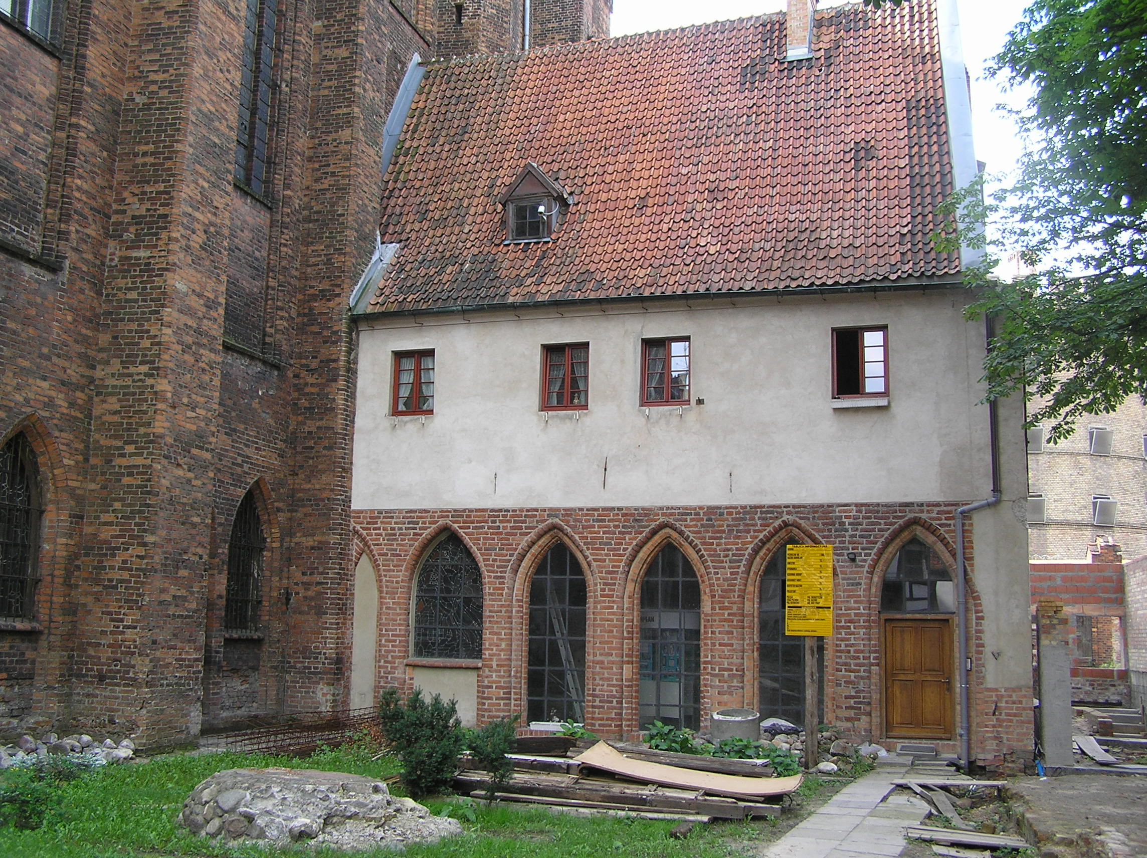 Toruń, Church of Assumption of the Virgin Mary, preserved part of the west monastery wing